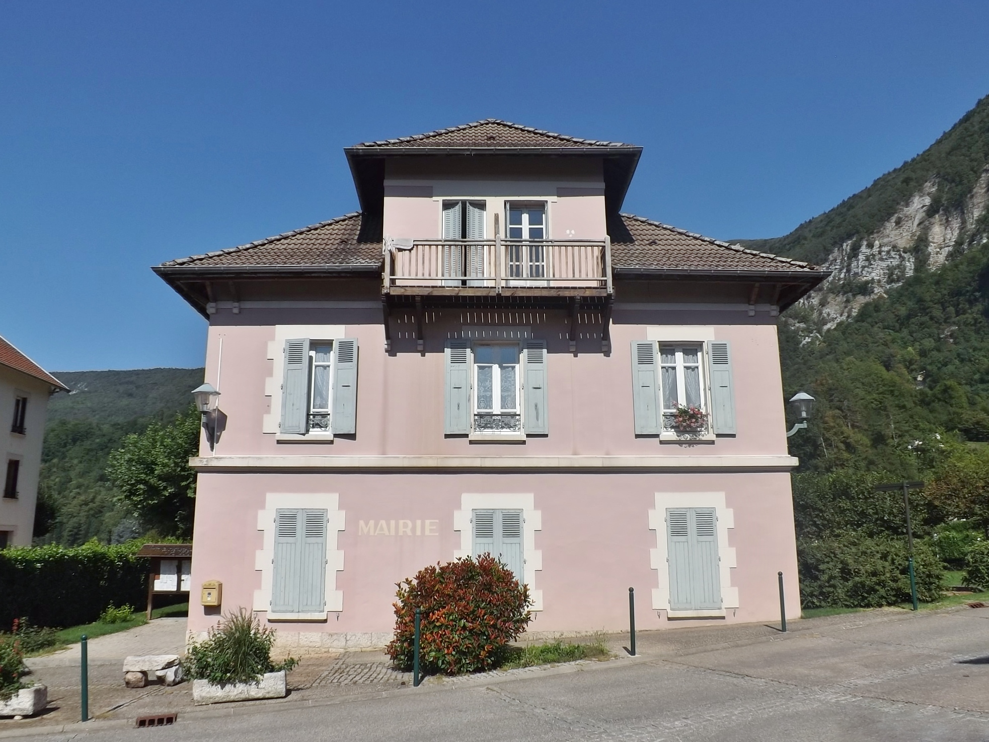 Sight of the town hall building of the French commune of Aiguebelette-le-Lac, near Chambéry in Savoie.